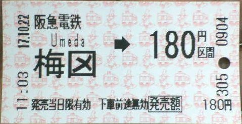 180 Yen ticket of Hankyu Railway from Umeda Station